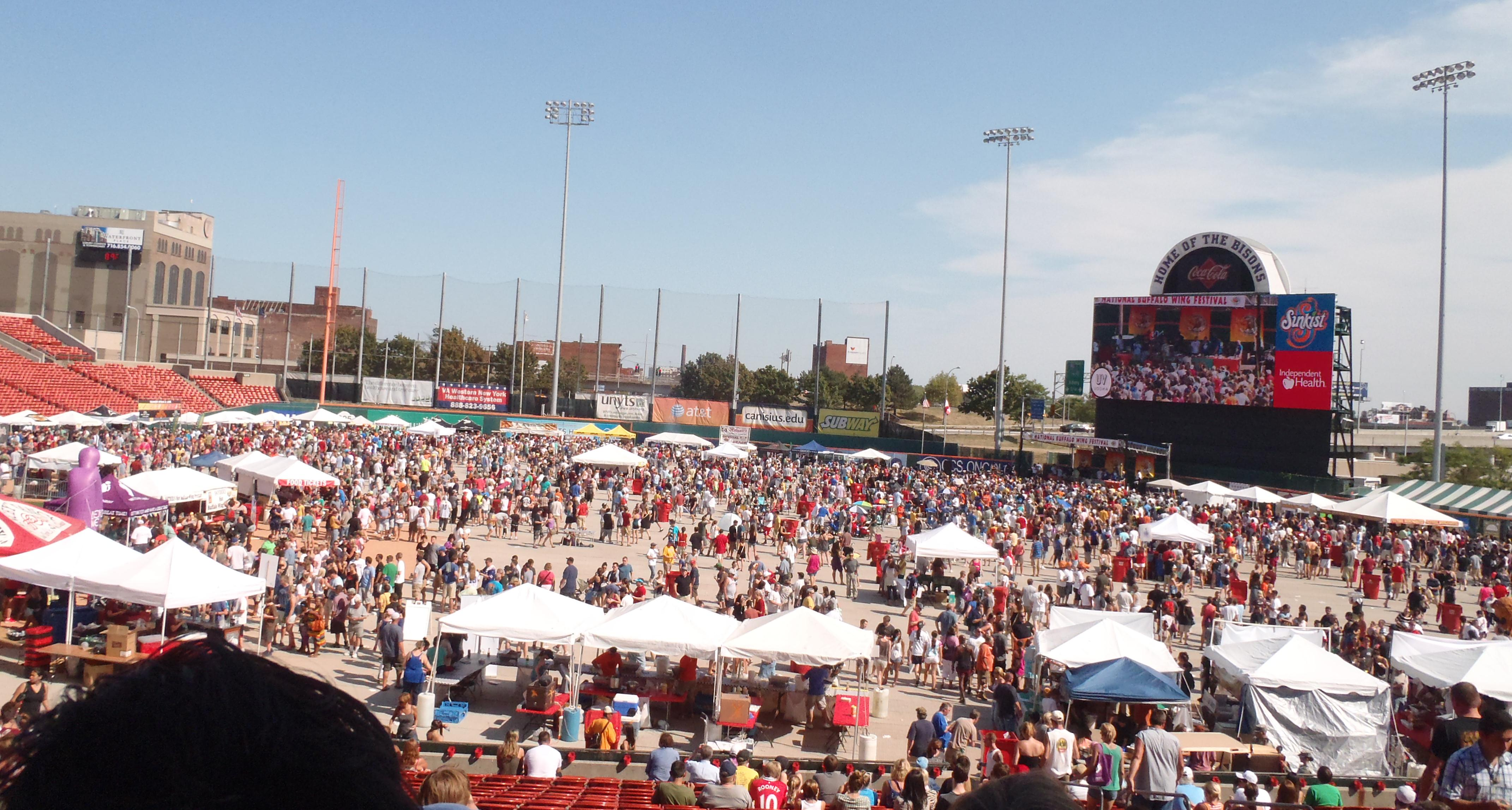 Crowd at the Buffalo Wing Festival, Coca-Cola Field, Buffalo, New York